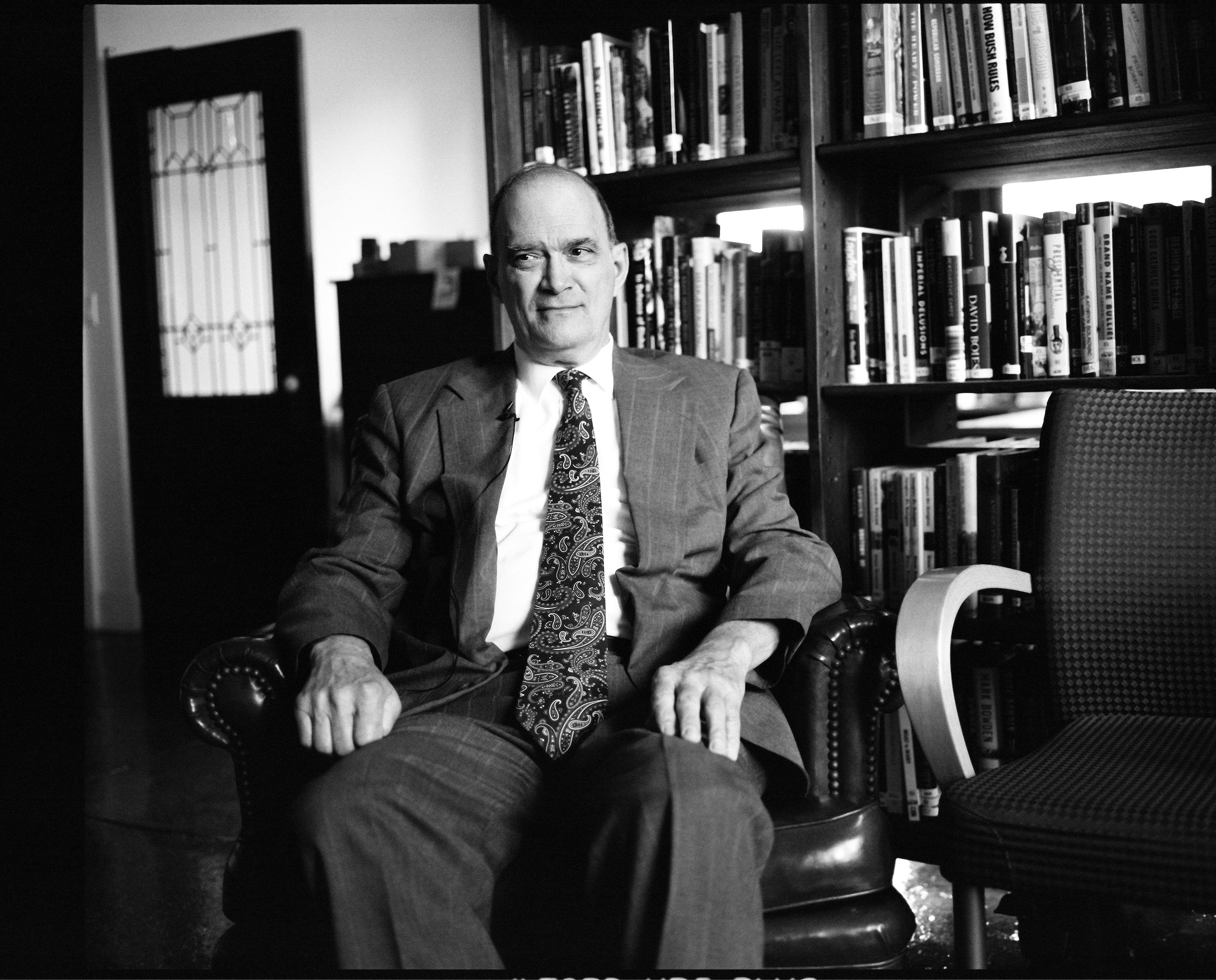 William Binney sitting in the offices of Democracy Now! in New York City, prior to appearing on a program there with Juan Gonzalez, Amy Goodman, and Jacob Appelbaum. Photo taken by Jacob Appelbaum.